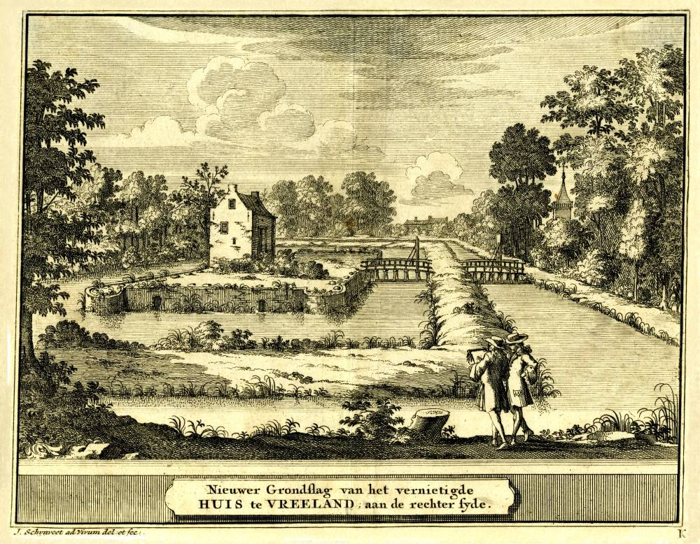 Castle Vredelant, engraving by Jacobus Schijnvoet